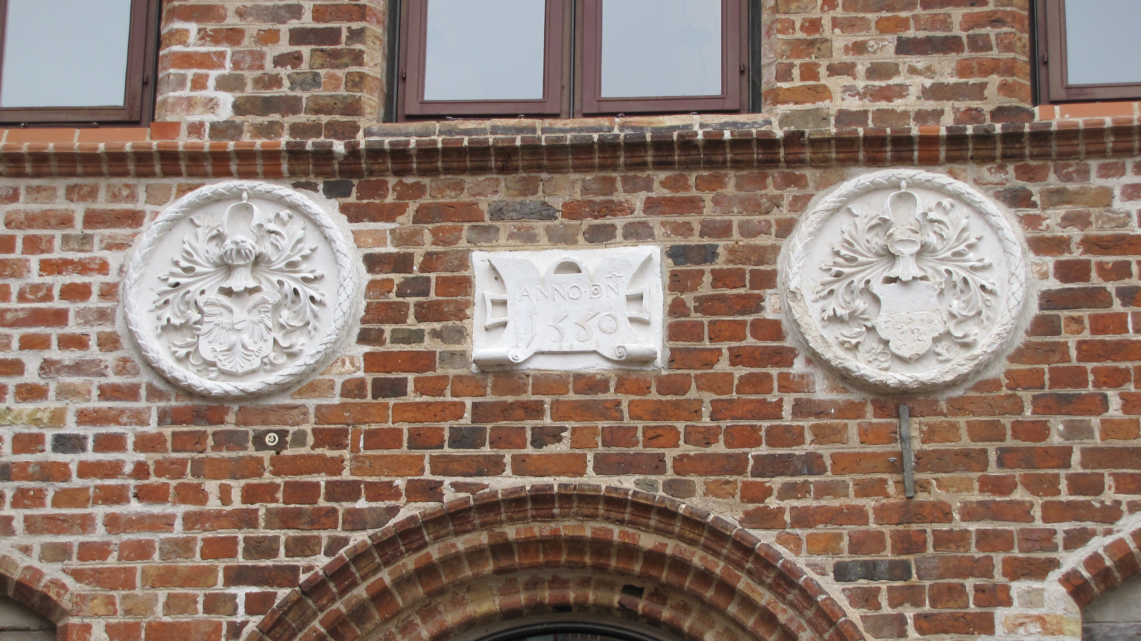 Lübeck coat of arms at the Stadthauptmannshof Mölln